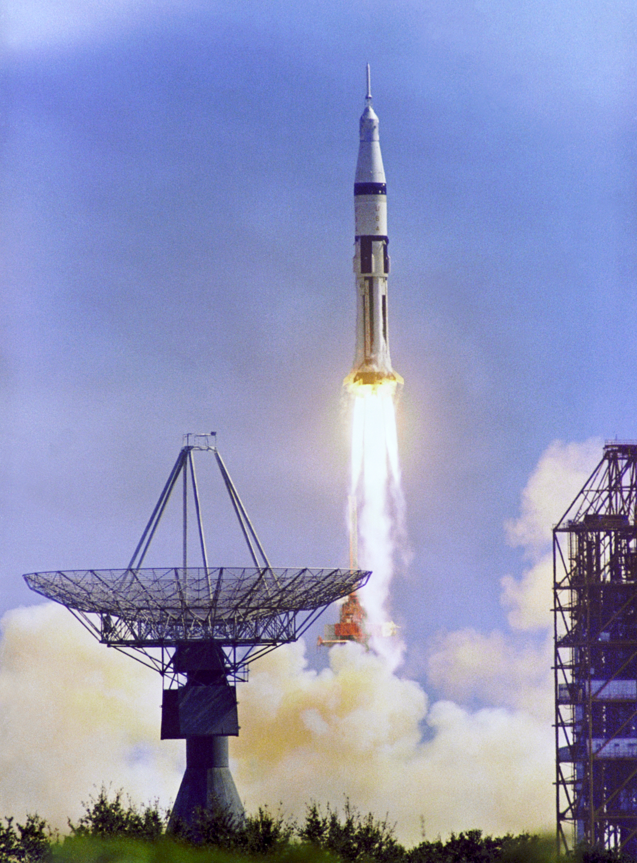 The Apollo 7 Saturn IB space vehicle is launched from the Kennedy Space Center's Launch Complex 34 at 11:03 a.m. October 11, 1968. A tracking antenna is on the left and a pad service structure on the right.